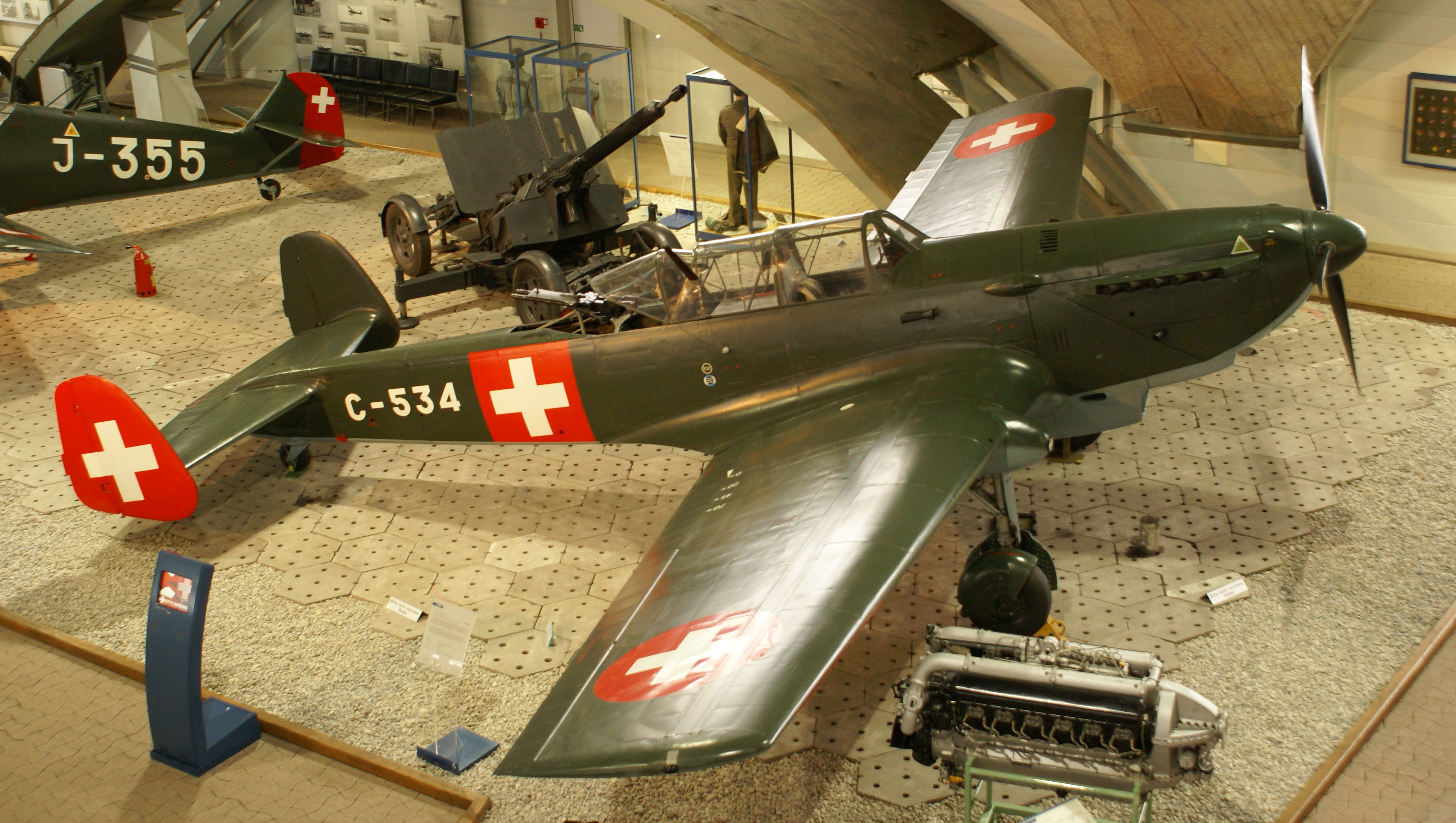 C-3603-1 fighter/reconnaissance aircraft as used by the Swiss Air Force from 1942 to 1952.